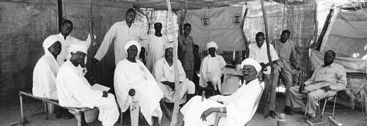 Jules Allen Photograph: Sudan 2007